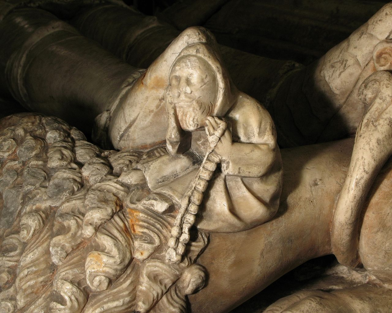 (St Mary and St Barlok)Monument to Sir Ralph Fitzherbert,d.1483,and his wife:detail in church in Norbury, Derbyshire:detail of lion and bedesman at Ralph's feet.